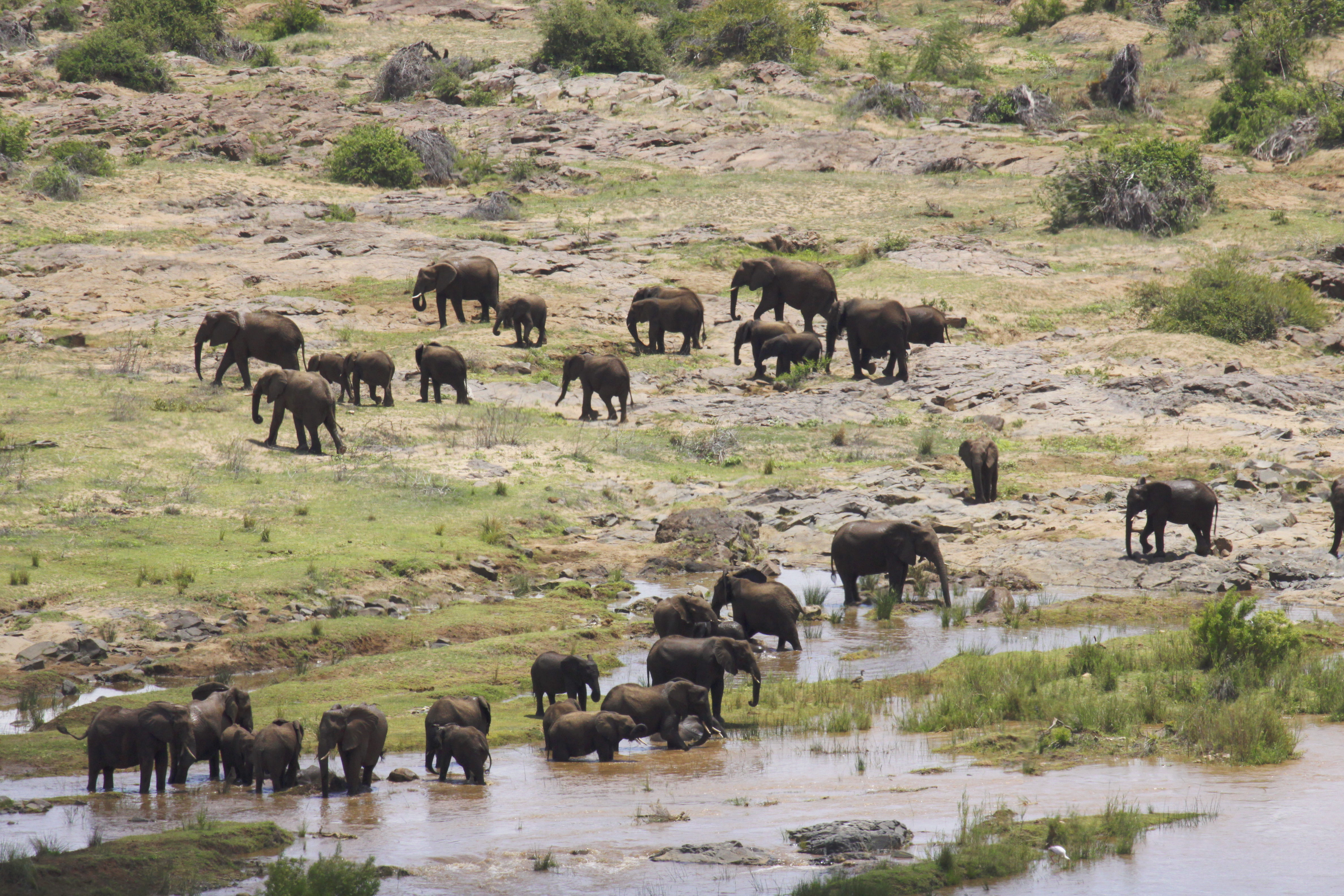 African elephants from a distance at the Oiliphants River, Kruger Park